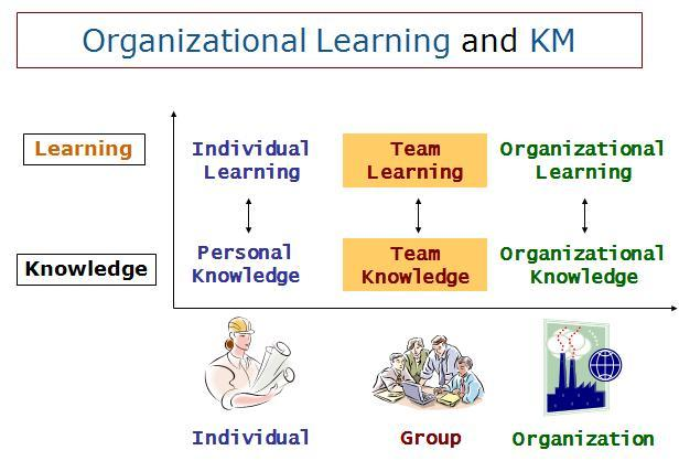 Organizational Learning and Knowledge Management